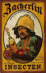 Advertising campaign for the insecticide Zacherlin (1910) Noise reduction and downsizing